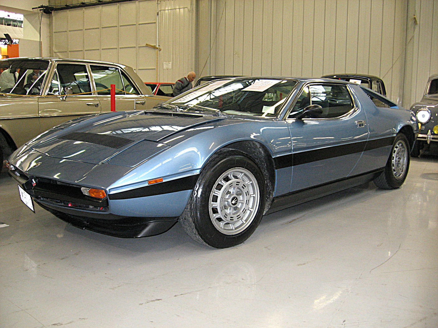 Subject:Maserati Merak Author:Luc106 Date:March 15th, 2007 Event:Old Timer Show 2008 Place/Country: Forlì, Italy I release all rights in the public domain.